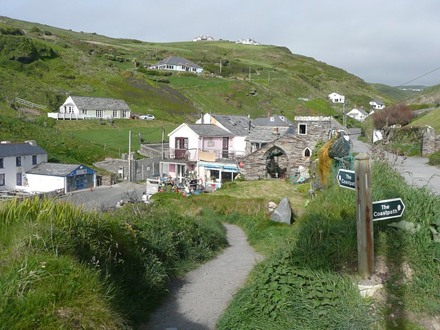 Footpath at Trebarwith Strand This short path leads from the -Port William down to the lane to the beach. The Gothic arch is part of the residence and studio of an artist. The hillsides are dotted with holiday homes.